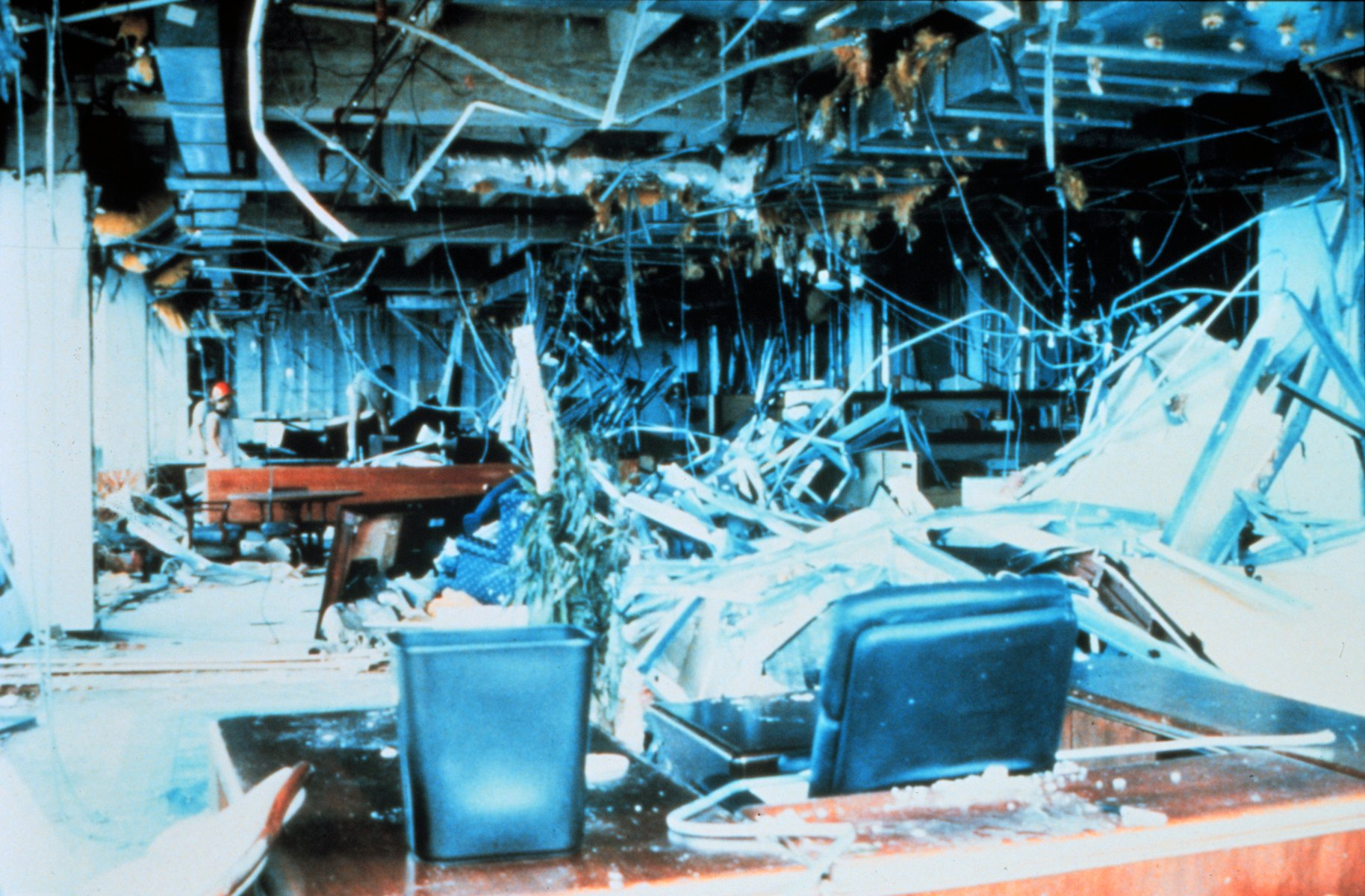 The interior of Burger King's Corporate office on Old Cutler Rd in Miami Florida after Hurricane Andrew